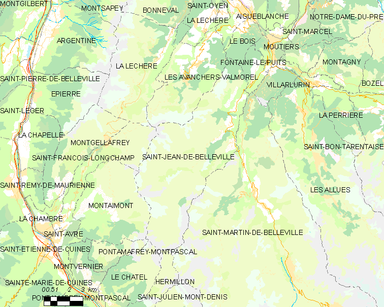 Map of French municipality